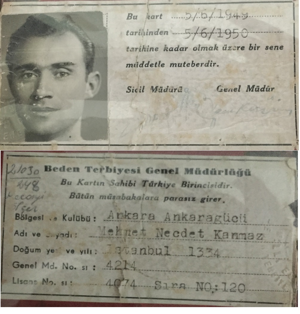 Lisance